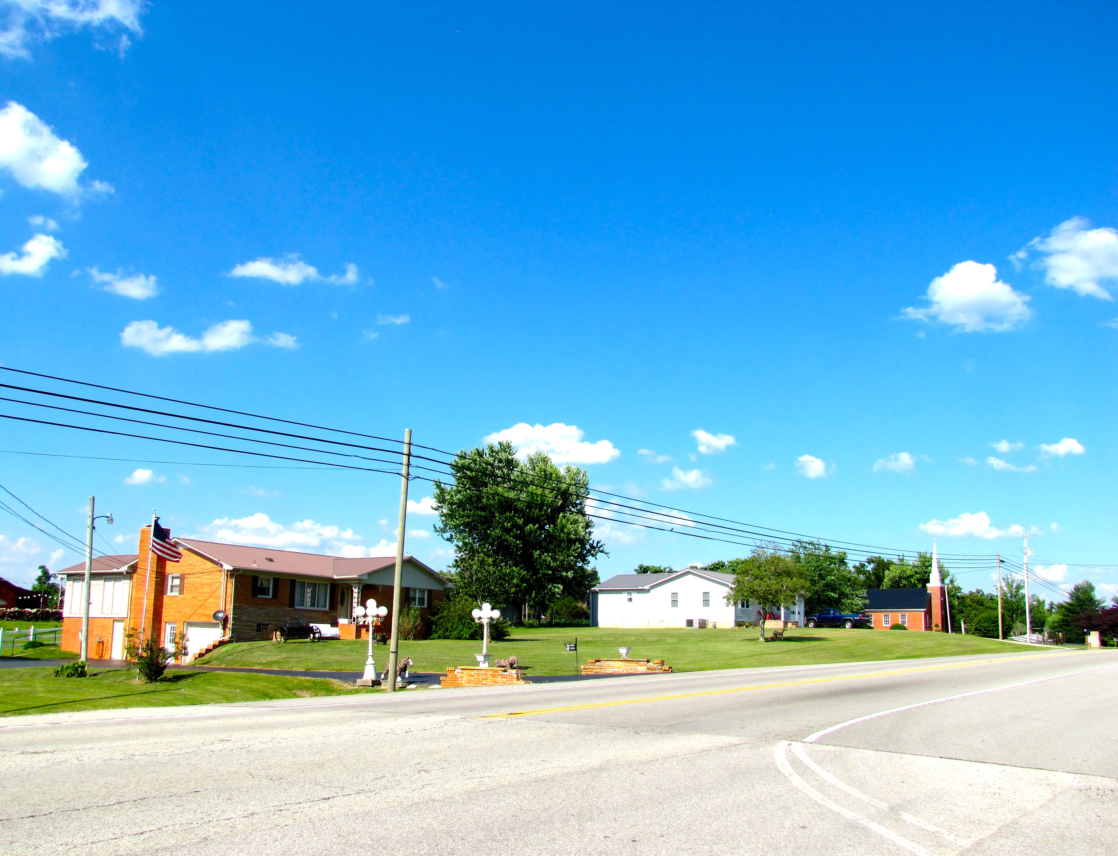 Houses and buildings along U.S. Route 70 in the Bon Air area of eastern White County, Tennessee, United States.